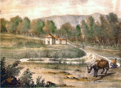 River Riullo, 1840